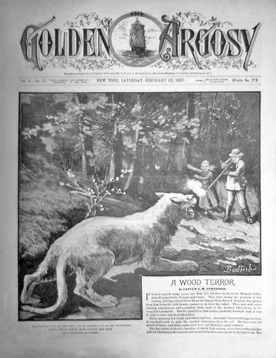 The Golden Argosy Weekly Magazine, 1887, Feb. 12